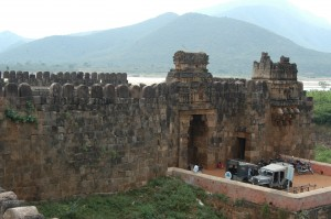 SidhoutFort2.jpg